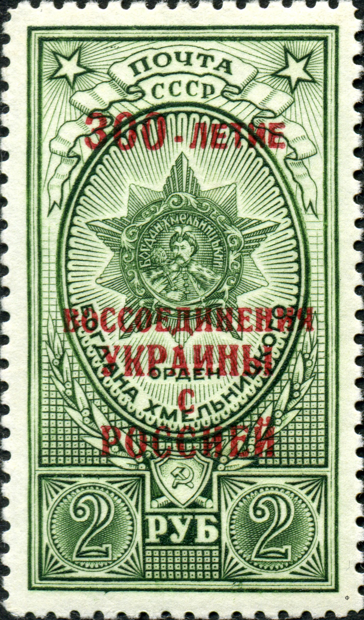 Stamp of USSR. Ukr-Rus Union 300 years. 1954, 2 rubles, CPA #1754